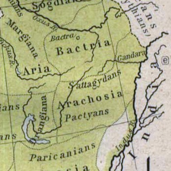 Historic map of the Achaemenid Empire